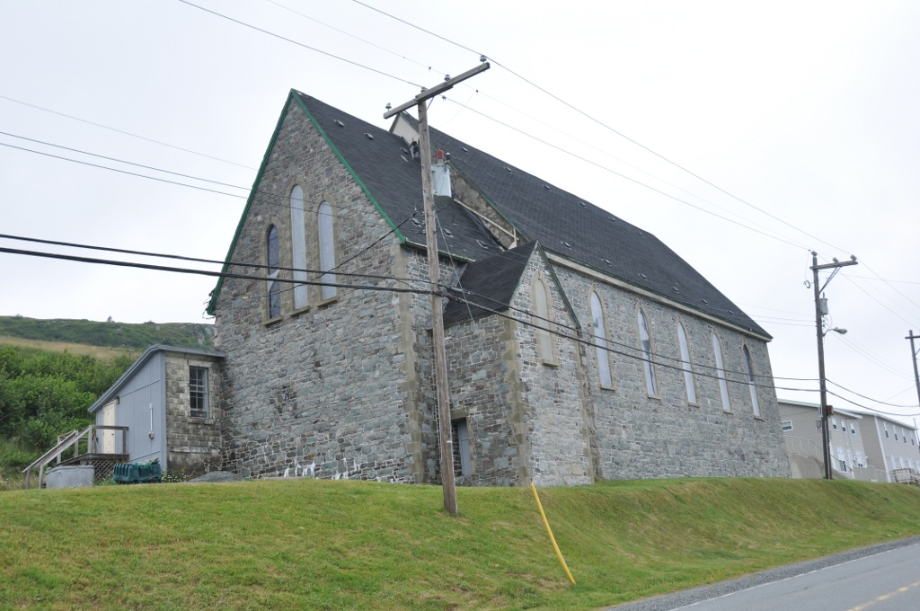 Holy Trinity Roman Catholic Church Registered Heritage Structure, Ferryland, Newfoundland.